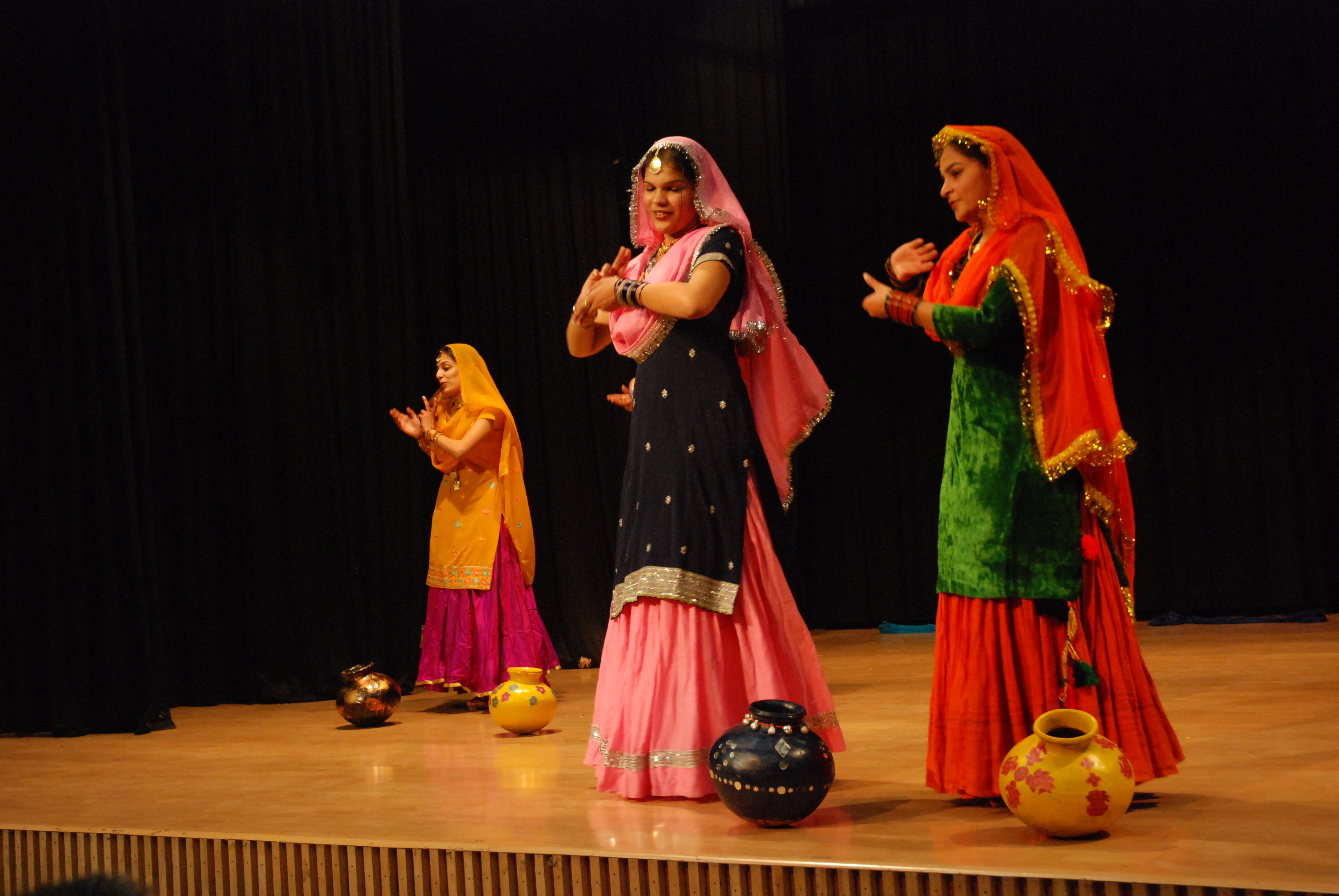 Punjabi folk Dance